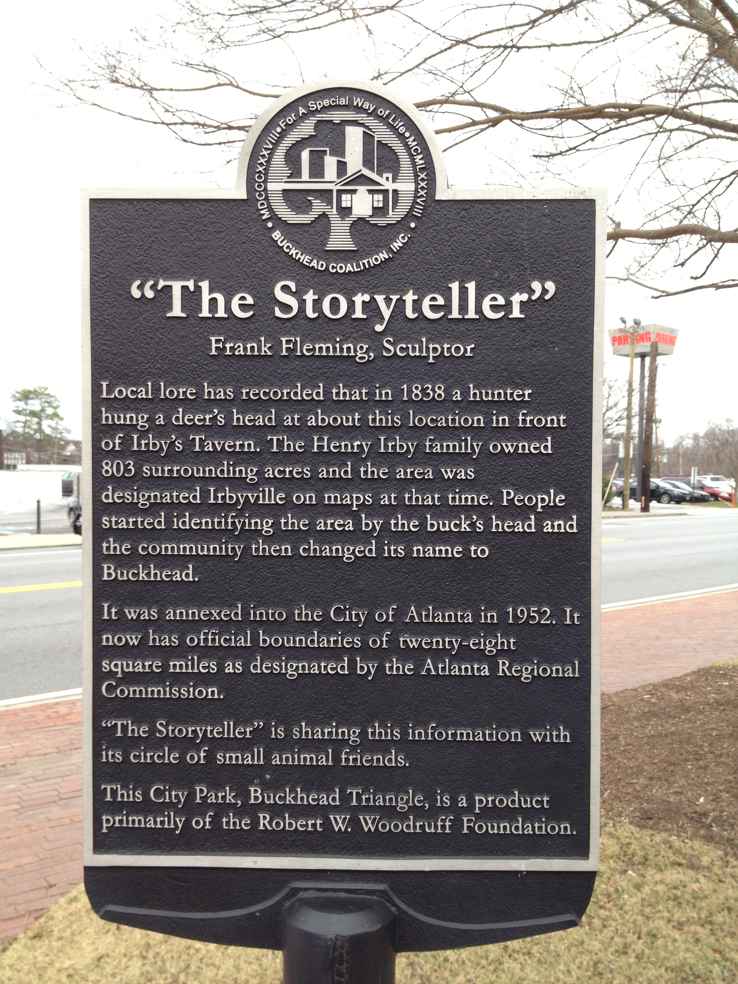 Descriptive plaque at The Storyteller sculpture, Buckhead, Atlanta